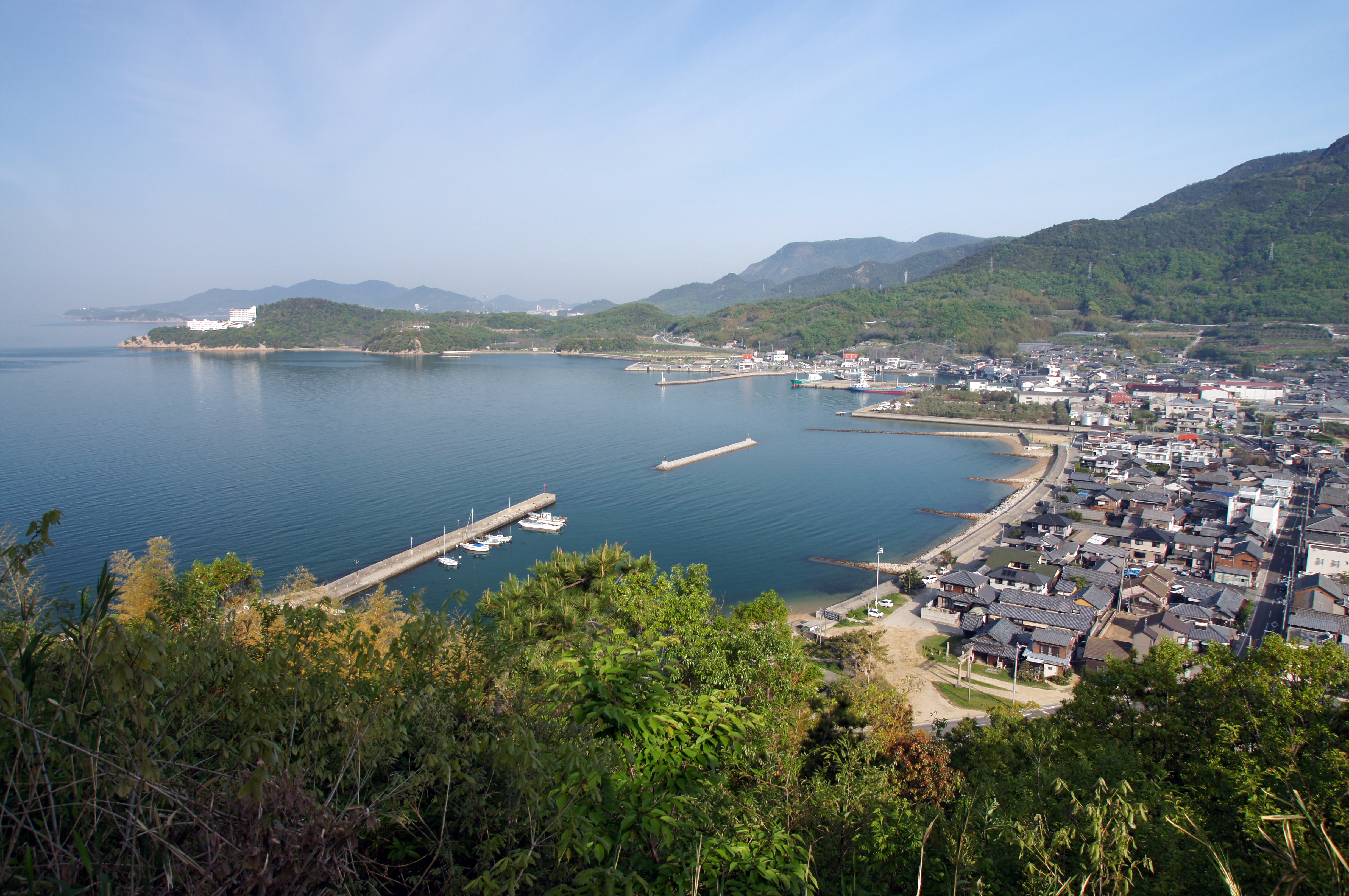 Ikeda Port of Shodo Island in Shodoshima, Kagawa prefecture, Japan